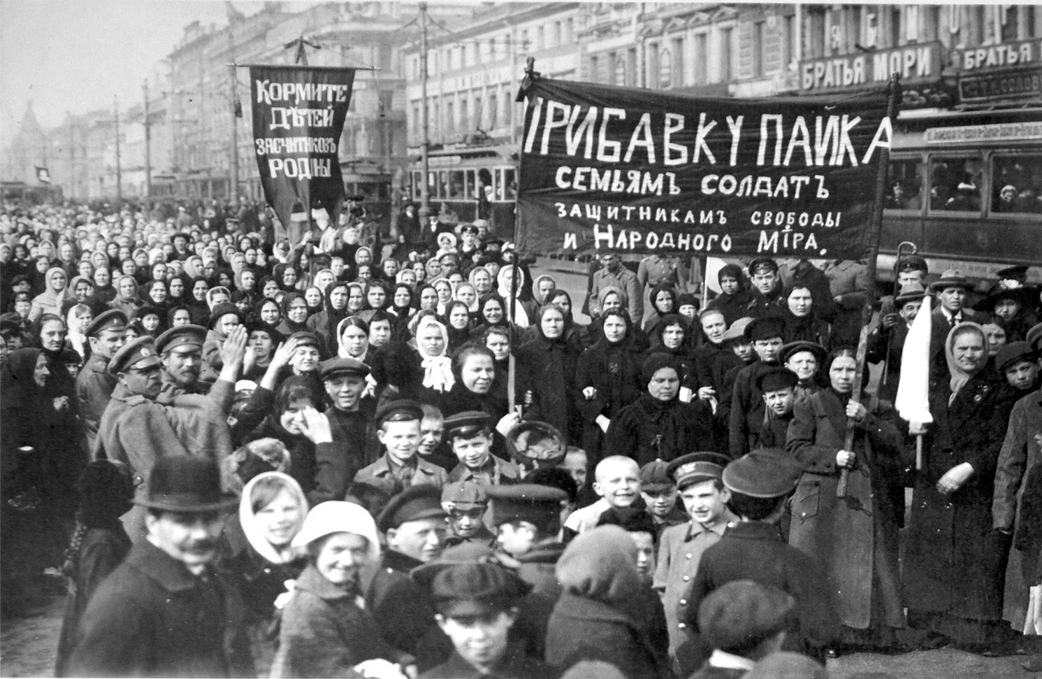 Demonstration of Putilov workers on the first day of the February Revolution of 1917